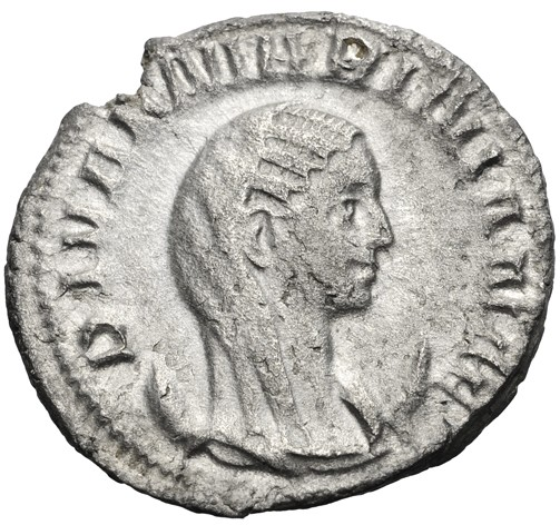 Mariniana Antoninianus